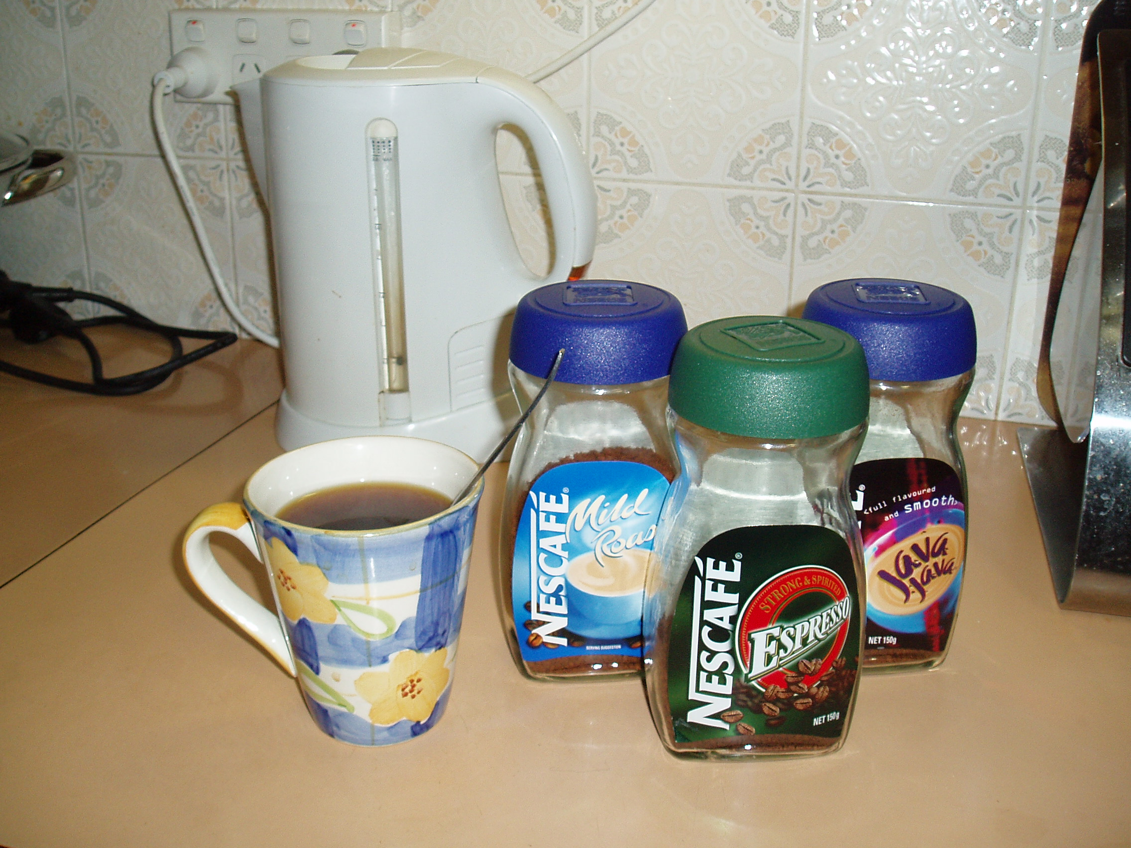 A selection of retail coffee flavours and styles together with a freshly brewed cup of coffee. For the record, it tasted good!